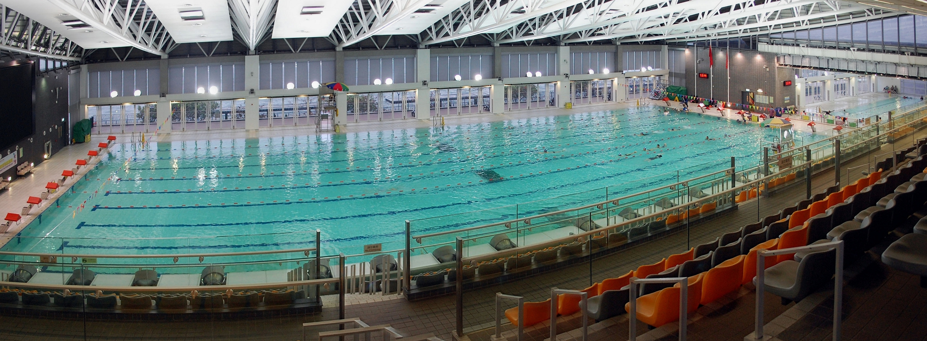 Panorama of the interior of Sun Yat Sen Memorial Park Swimming Pool, Sai Ying Pun, Hong Kong 中文（香港）: 中山紀念公園游泳池